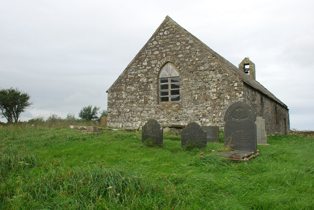 Eglwys Santes Fair Penllech, near to Penllech, Gwynedd, Great Britain. This church on an ancient site on the pilgrims' route to Enlli (Bardsey) stands beside the farmyard of Plas ym Mhenllech. Still in occasional use, it has an almost unaltered Georgian interior.